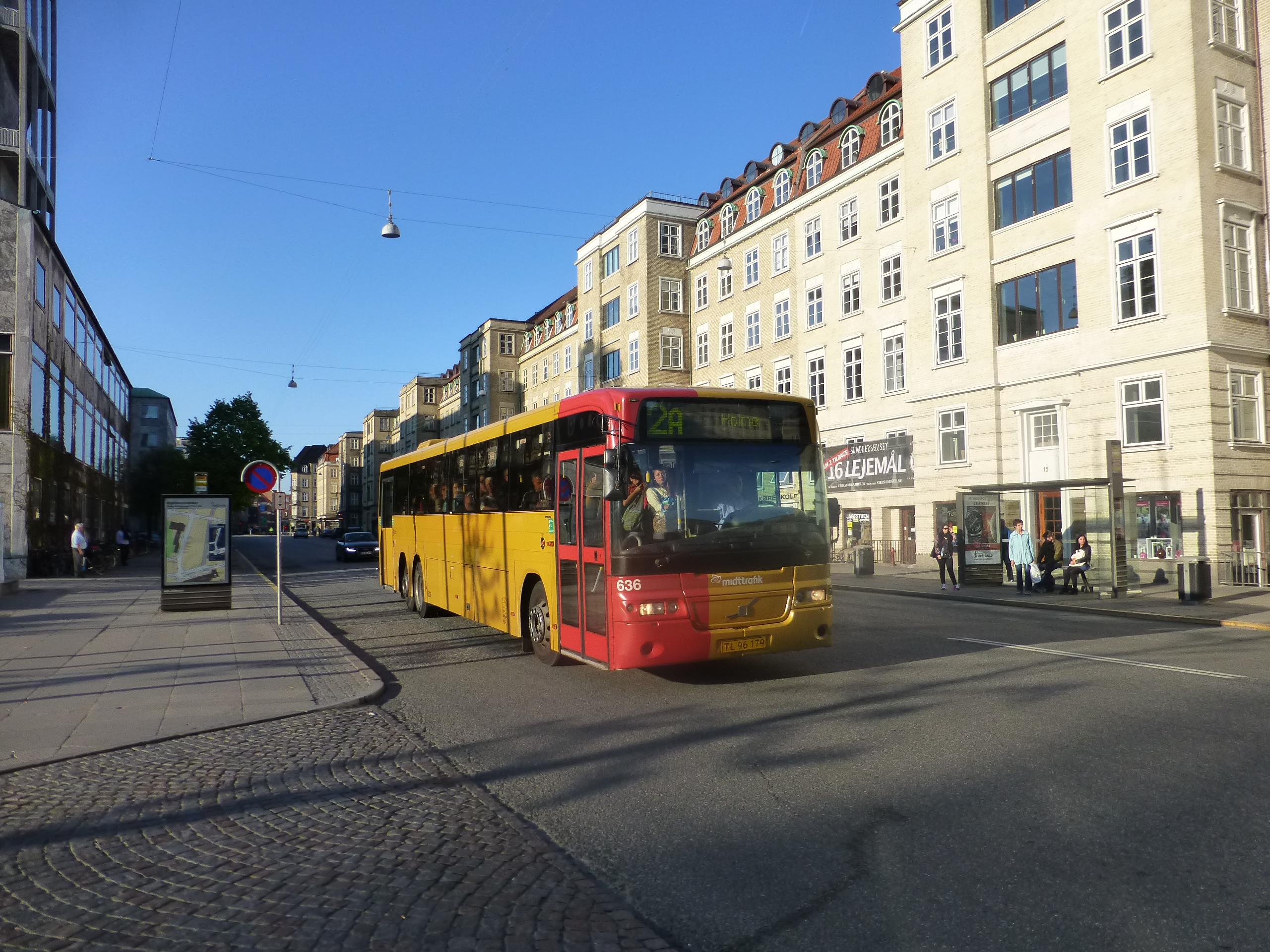 Bus line 2A on Park Alle at Aarhus City Hall in Denmark.